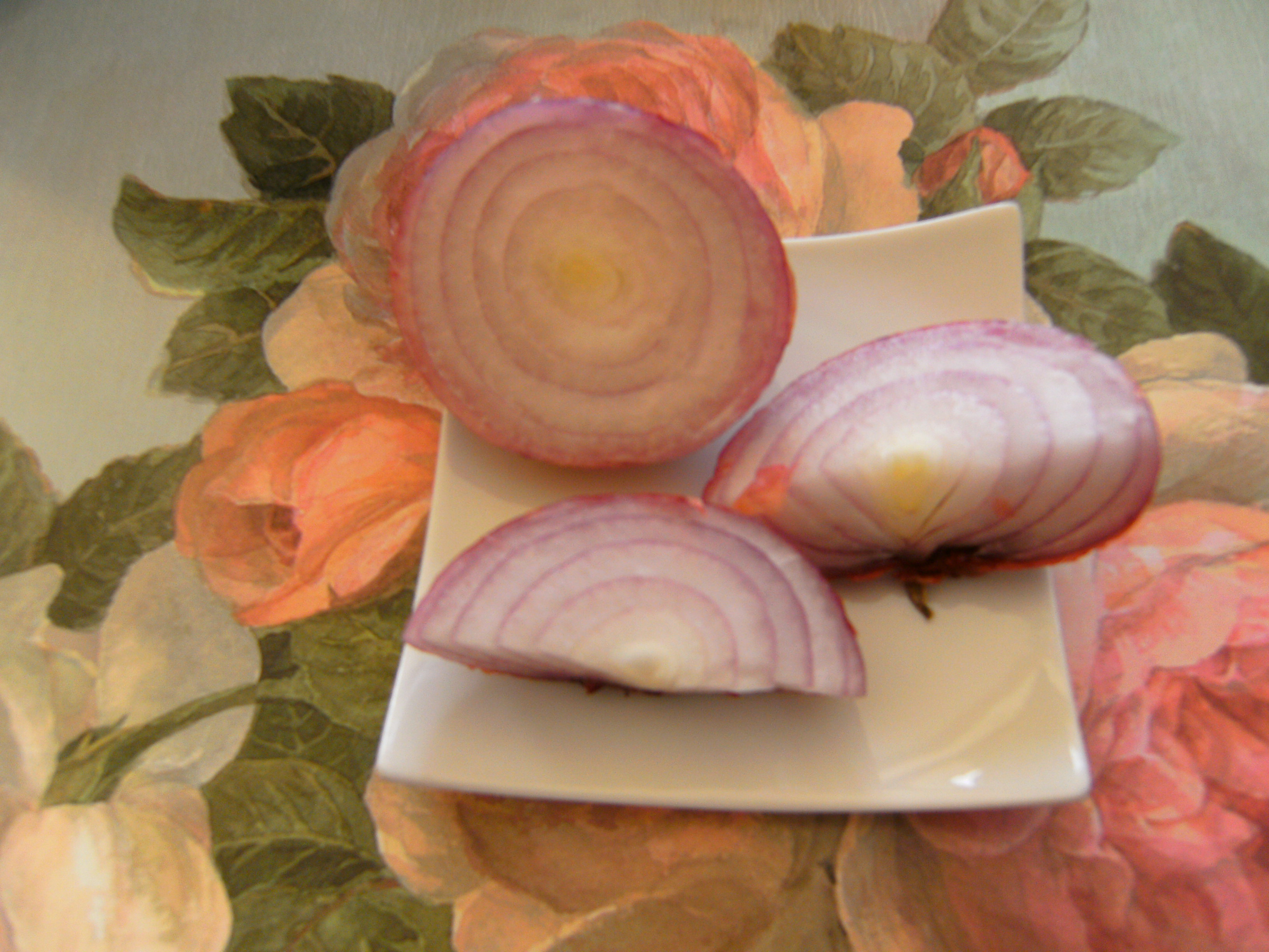 Höribülle: Special flat onion from Höri, Iznang, Untersee (Lake Constance), Germany. One half and two quarters.